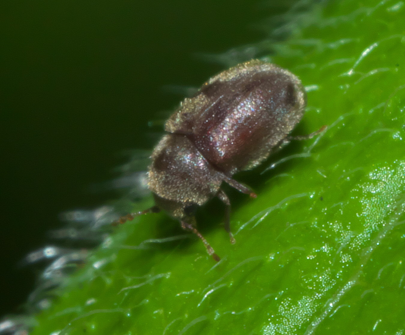 Protheca hispida, Family: Death-watch and Spider Beetles, Size: 2.3 mm, ID Confidence: 98